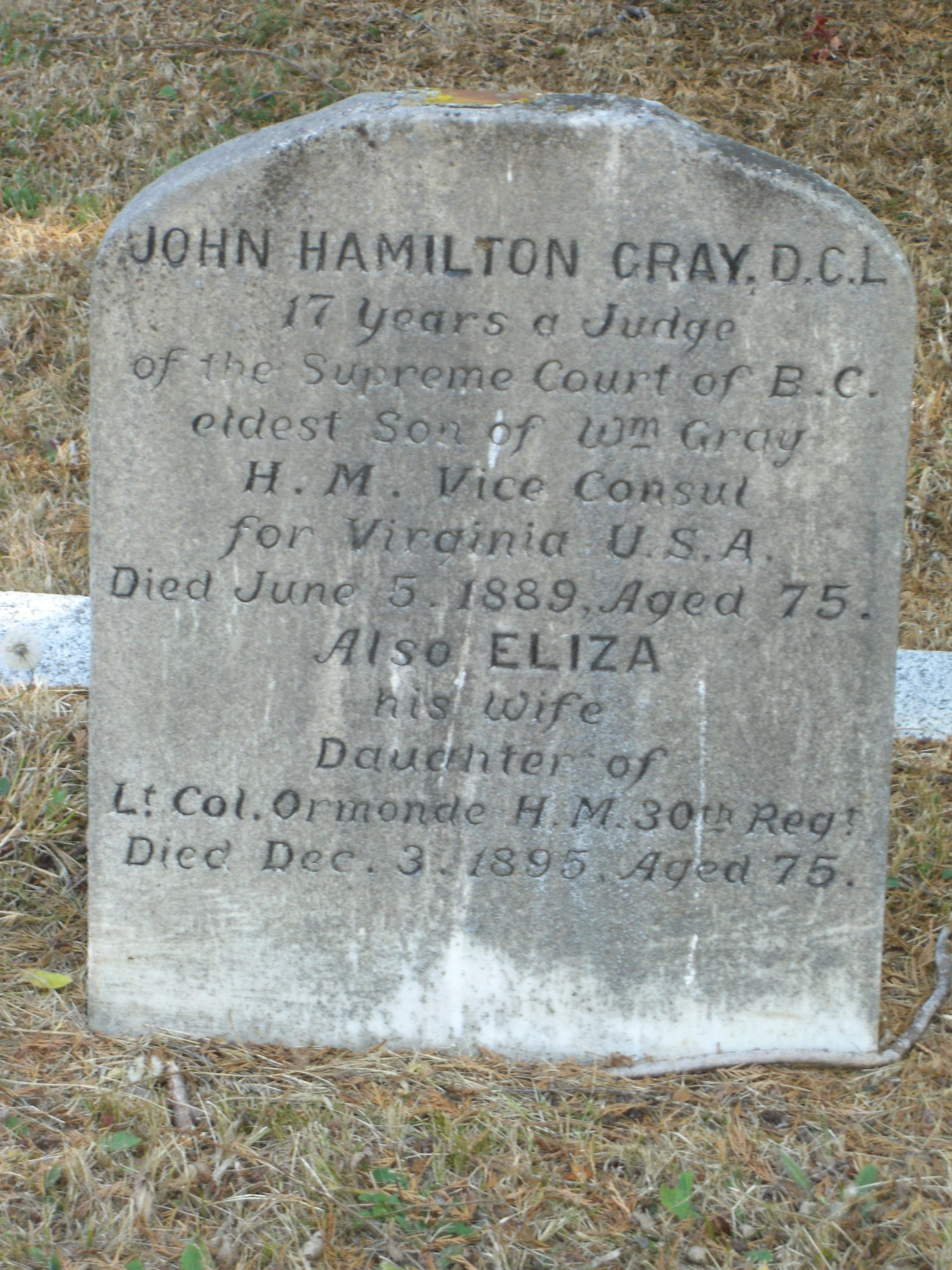 Grave marker of John Hamilton Gray at Ross Bay Cemetery, Victoria BC.